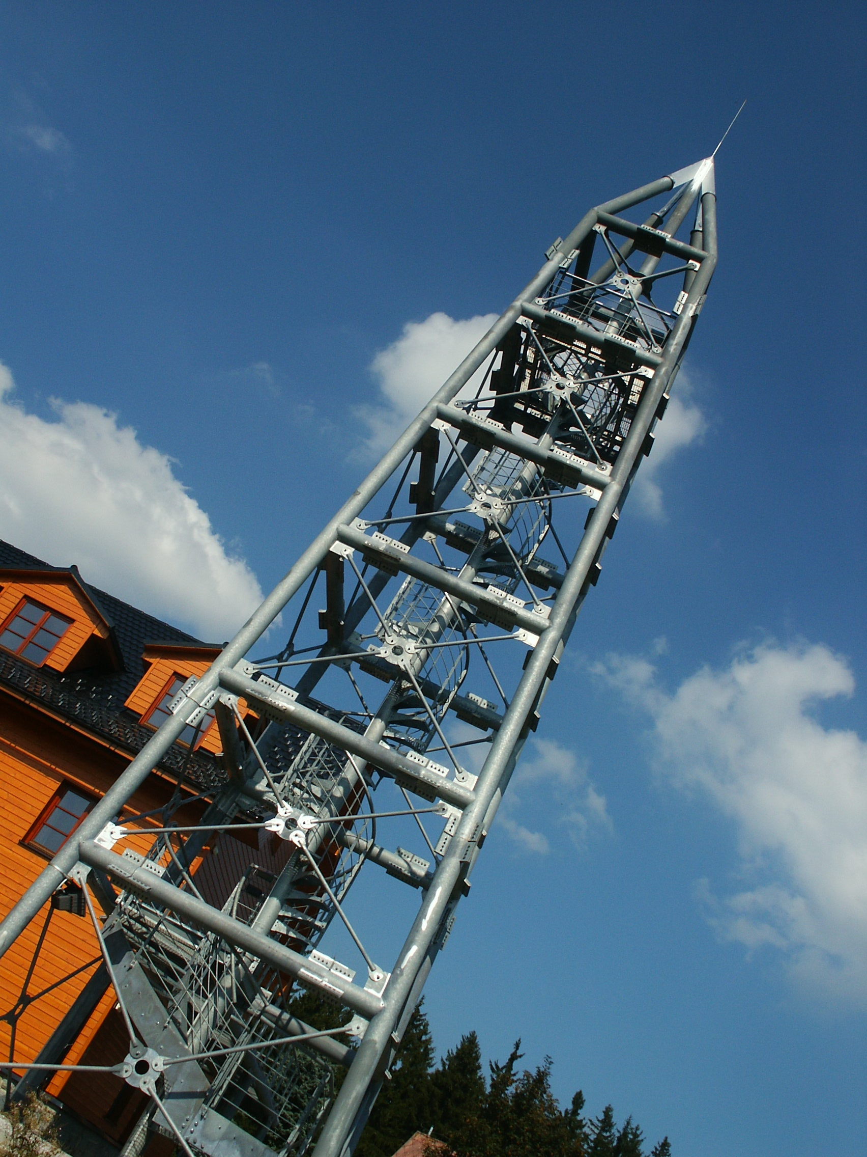 Lookout tower "Zlatá vyhlídka" (Golden view) near Janské Lázně, Giant Mountains, Czech Republic